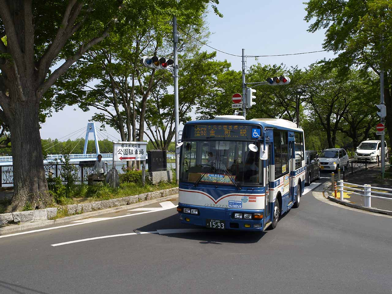 "Mizumoto Park Family Shittle", operated in between Kanamachi station and Mizumoto Park, on every weekend of March to November by Keisei Bus. Model: Mitsubishi Fuso Aero Midi ME License plate: TKA200 KA1593 Place: Mizumoto Park, Katsushika ward, Tokyo Japan